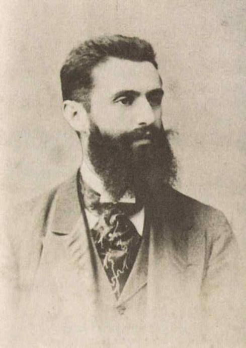 In the life of Theodor Herzl, People of Israel